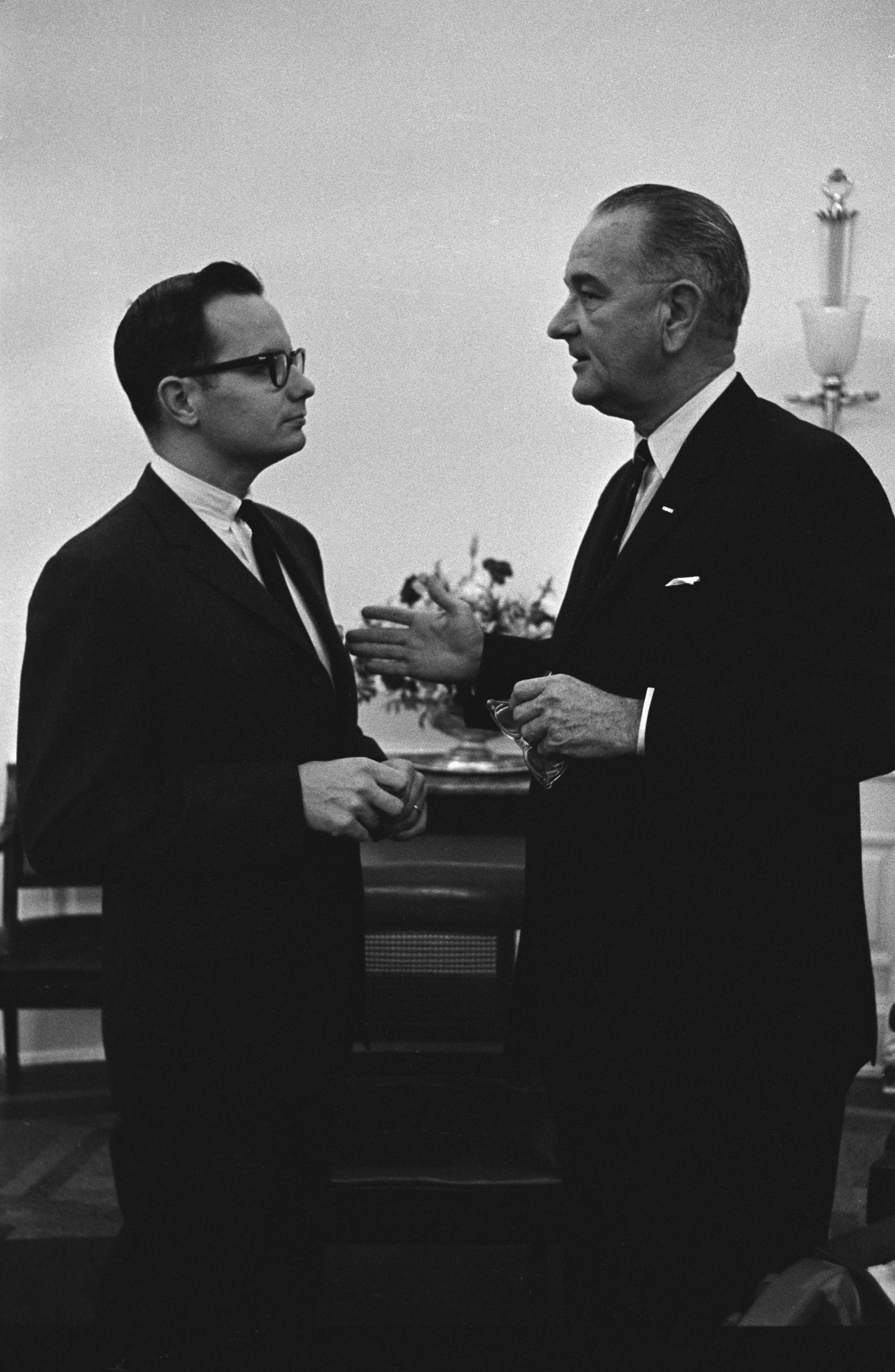 US President Lyndon Johnson (right) meets with special assistant Bill Moyers in the Oval Office, White House, Washington, DC, 29 November, 1963.